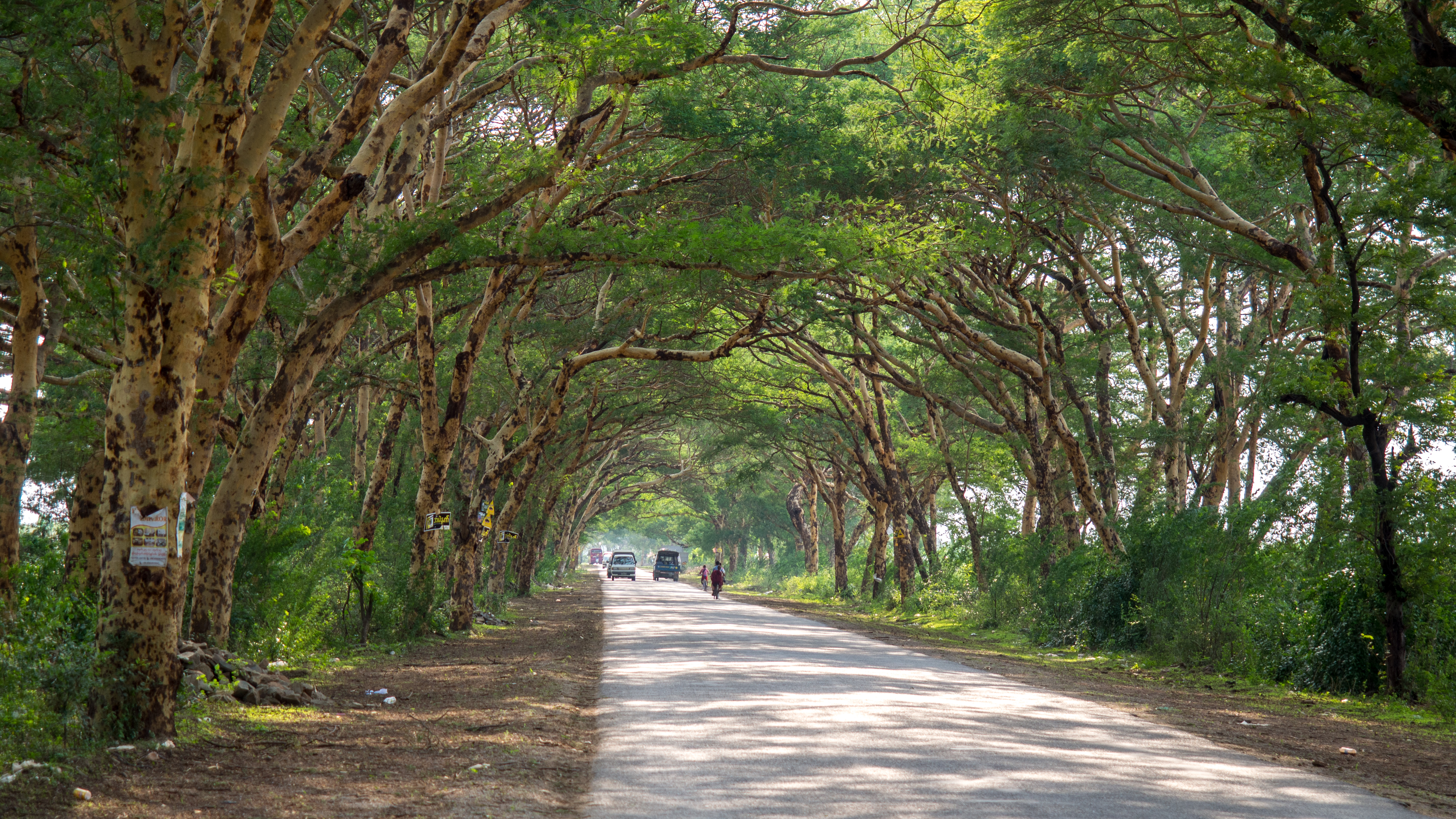 Some parts of the highway which lead to Mandalay form Myingyan is covered by Acacia trees. This photo was taken near Natogyi township. မြန်မာဘာသာ: နွားထိုးကြီးမြို့နယ်နားရှိ မြင်းခြံ − မန္တလေးလမ်းပိုင်းတစ်နေရာဖြစ်သည်။ လမ်းတစ်ဘက်တစ်ချက်စီတွင် ထနောင်းပင်များစီတန်းပေါက်ရောက်နေပြီး ကားလမ်းမကို အရိပ်သဖွယ်မိုးထားသည်။